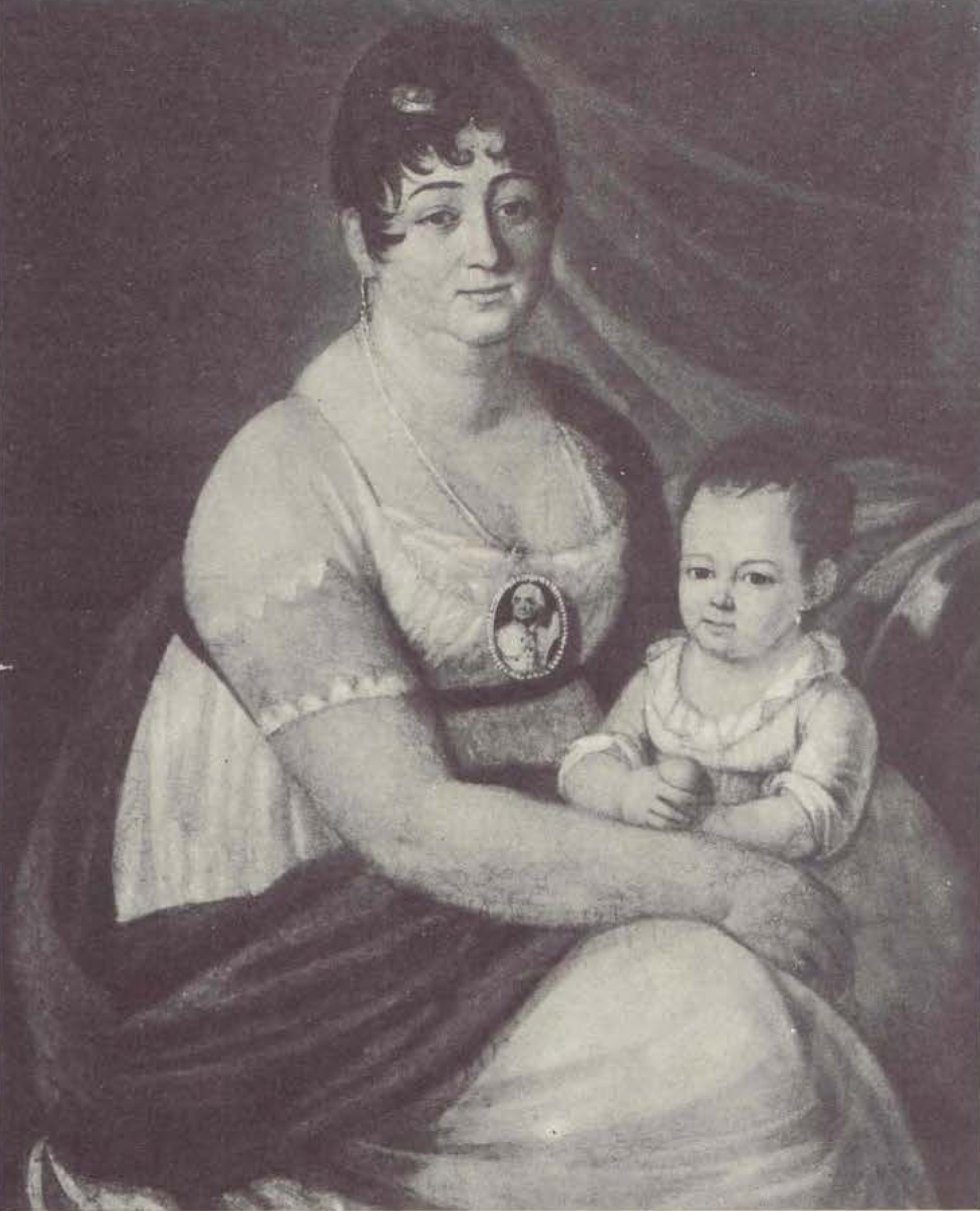 Павел Иванович Ремезов (1780-1833). Портрет Устиньи Васильевны Волковой с дочерью Ольгой. Рубеж 18 - 19 вв. Изображена супруга генерал-майора Ивана Федоровича Волкова. Каталог "Неизвестные и забытые портретисты 18-19 веков из фондов Одесского художественного музея"